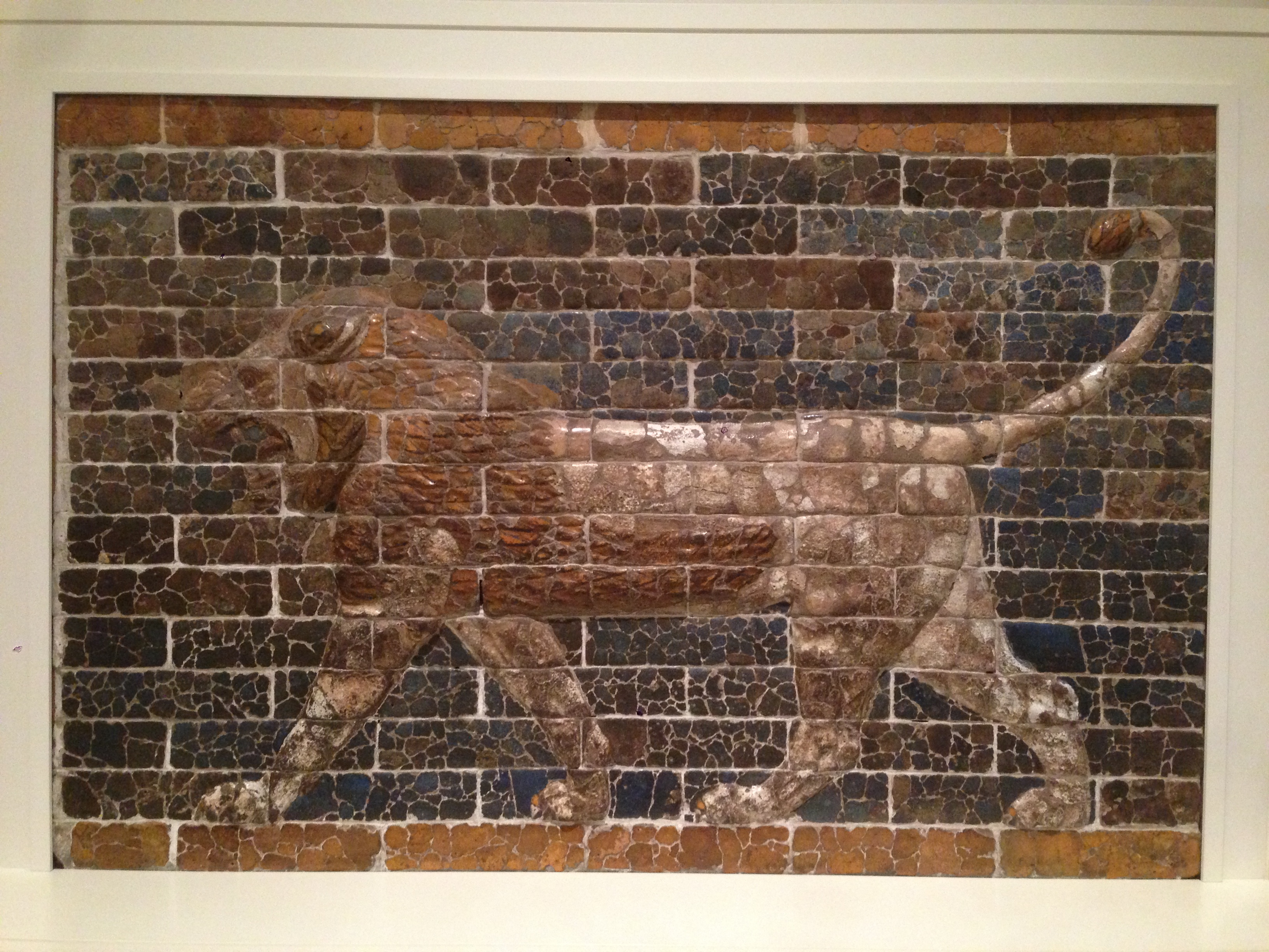 Glazed brick relief of a striding lion from the Ishtar Gate of the palace of Nebuchadnezzar II. On display in the Wirth Gallery of the Middle East at the Royal Ontario Museum, Toronto.